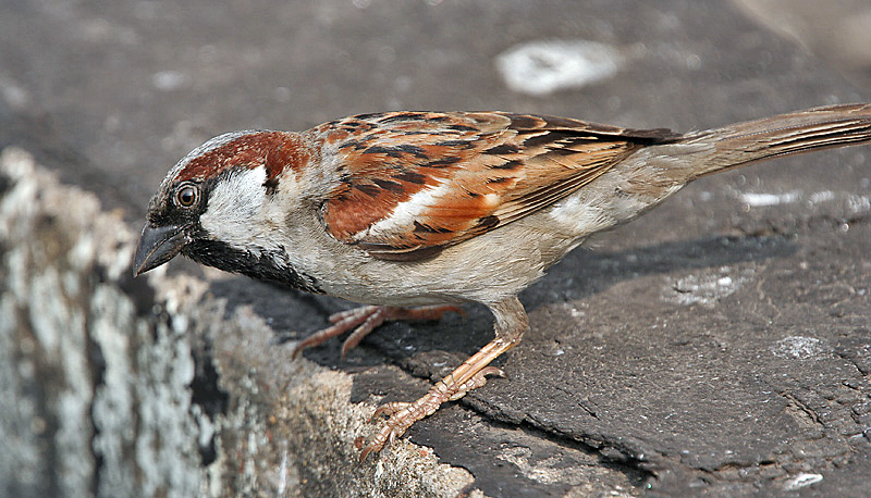 A male House Sparrow (Passer domesticus) in Kolkata, West Bengal, India.